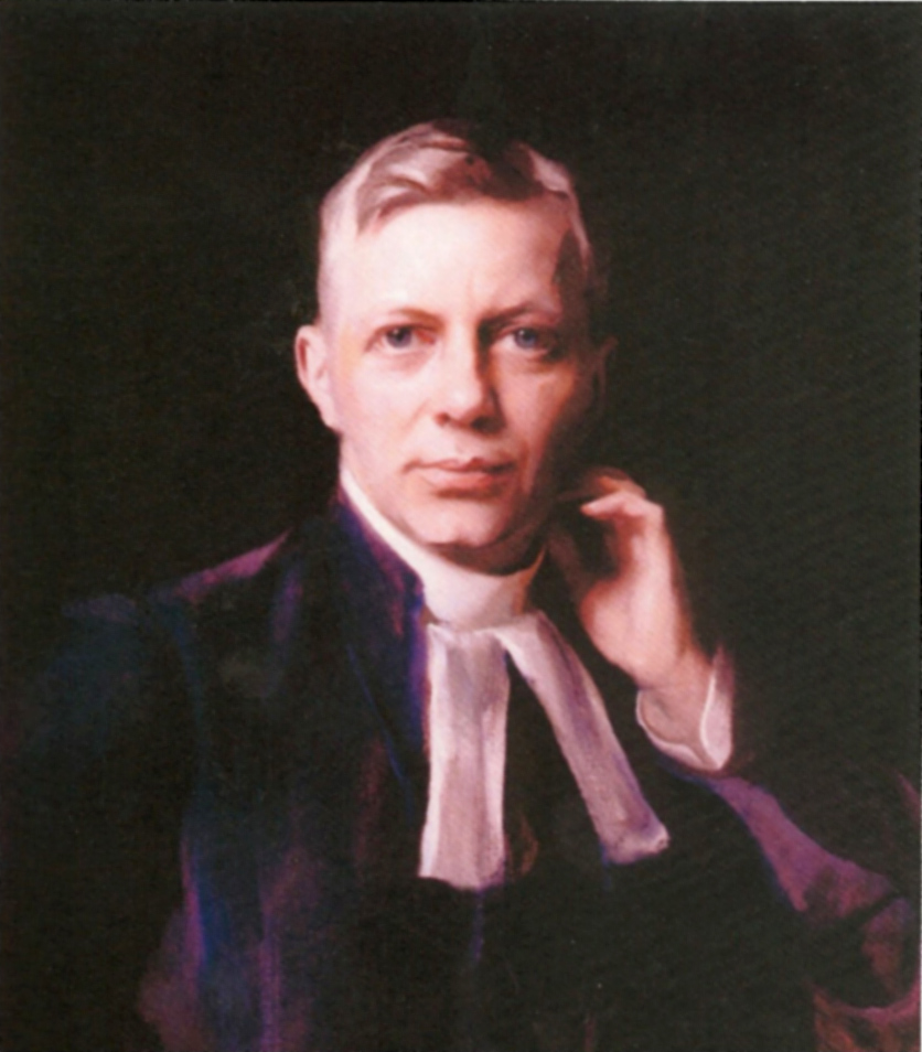 Philip Alexius de László: portrait of W:en:George Bell (bishop) as Dean of Canterbury, 1931, currently hanging in the Deanery, Canterbury